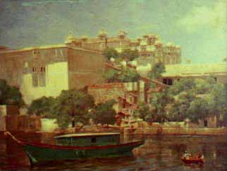 Udaipur Palace